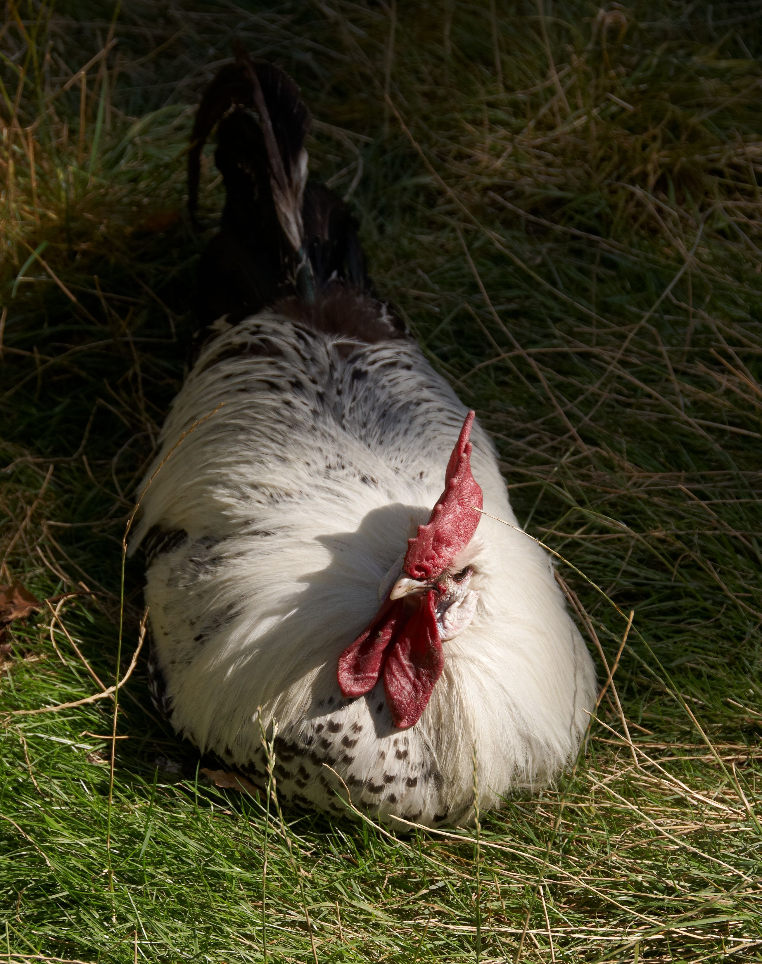 Braekel in the Kruidtuin in Leuven, Belgium